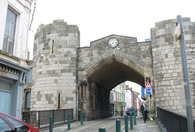 Porth Mawr or East Gate This, the main gate of the medieval walled town of Caernarfon, is also known as the Exchequer Gate and the Guild Hall Gate. In the middle ages the bridge in the foreground was a draw bridge spanning the River Cadnant and was closed between eight at night and six in the morning. The arch was widened in 1873 and the buildings above it, which housed the Guild Hall and, later, a cinema, were removed in the 1960s. The clock has not worked for years.